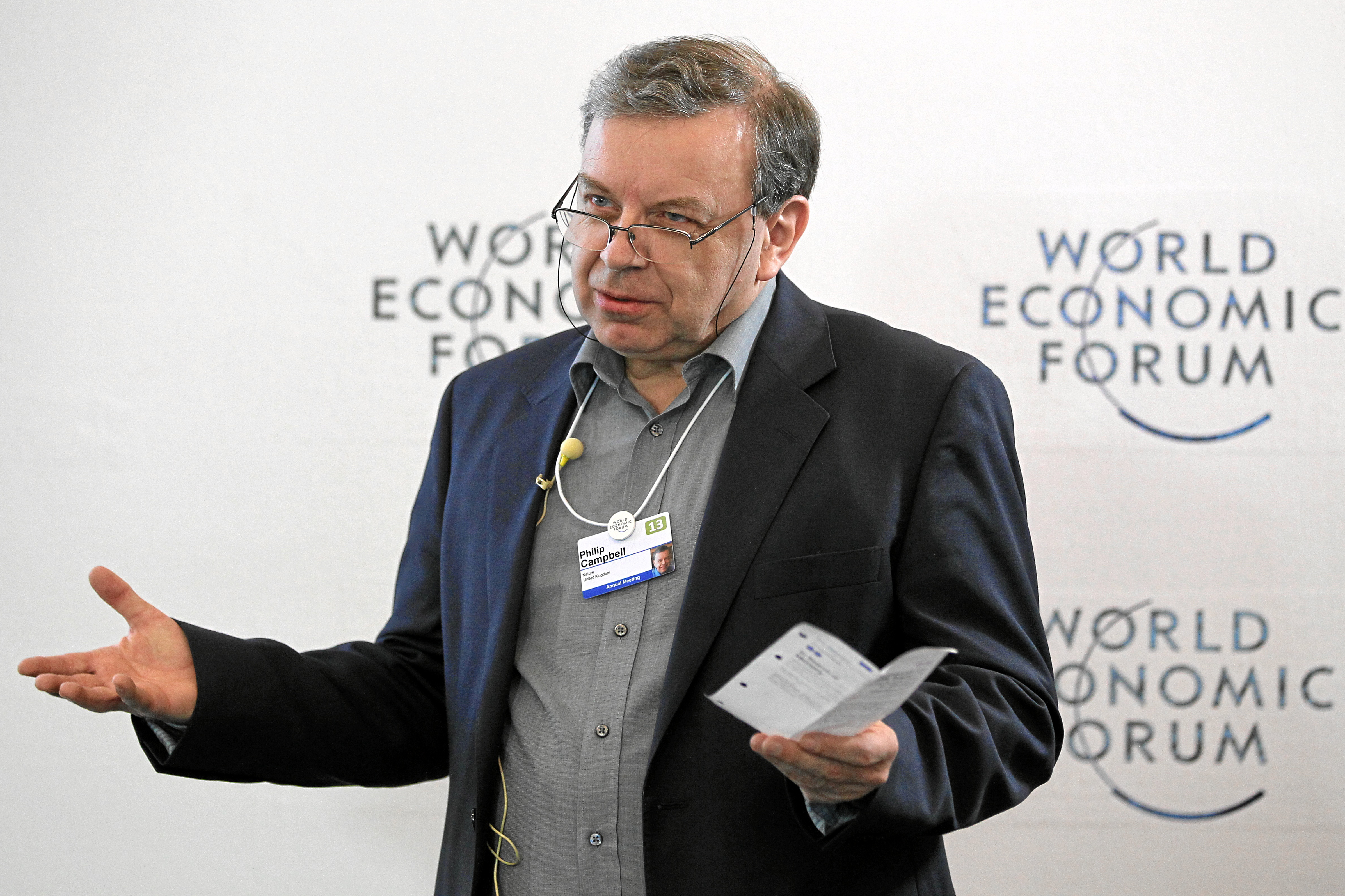 DAVOS/SWITZERLAND, 25JAN13 - Philip Campbell, Editor-in-Chief, Nature Magazine, United Kingdom; Global Agenda Council on Well-being & Mental Health speaks during the session 'Maximizing the Power of Science' at the Annual Meeting 2013 of the World Economic Forum in Davos, Switzerland, January 25, 2013. Copyright by World Economic Forum Moritz Hager